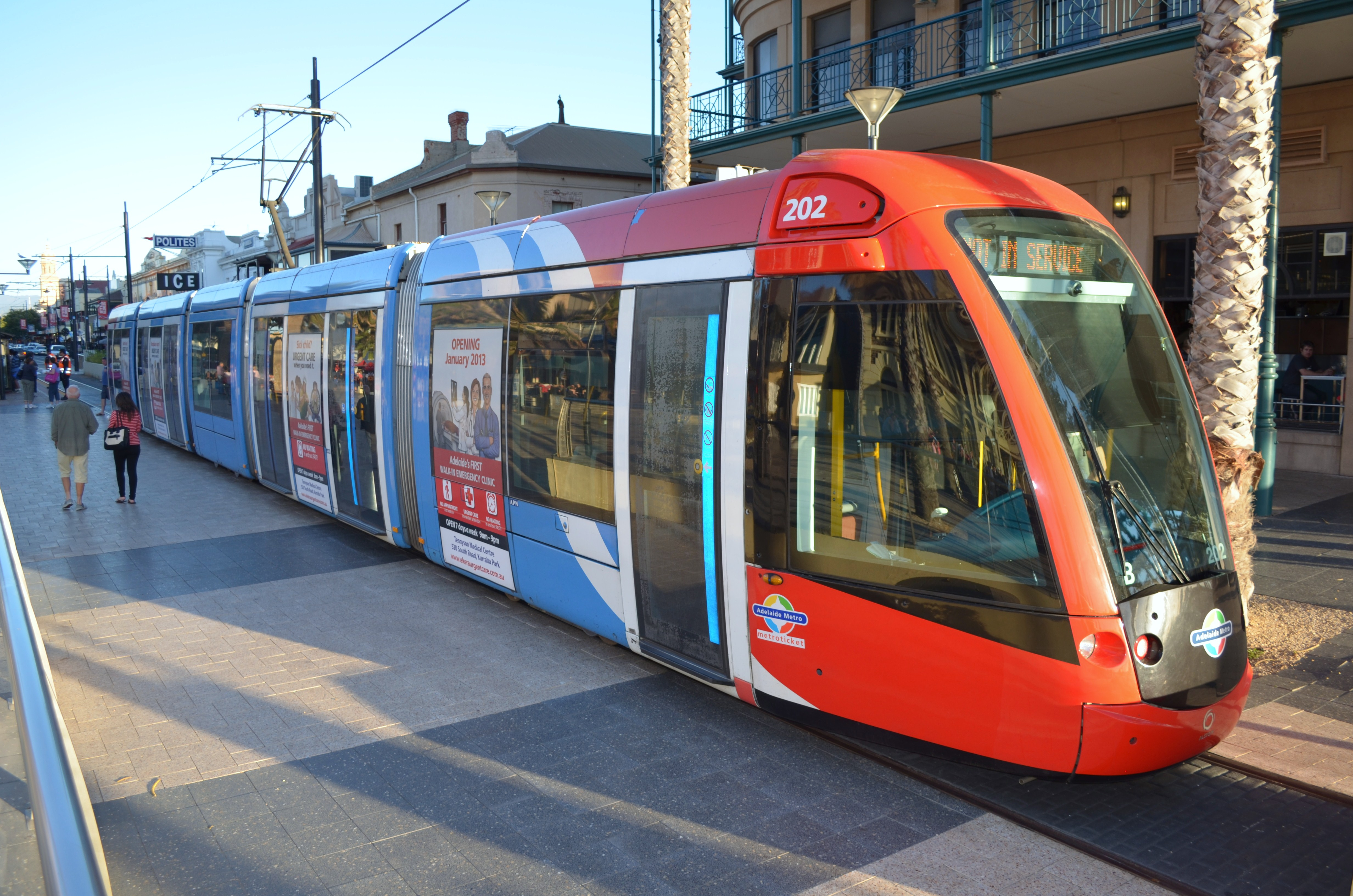 Adelaide Alstom Citadis 302 tram no 202, in the layover siding following its arrival at the Moseley Square tram terminus in Glenelg, South Australia, with a Glenelg tramway service from the Adelaide Entertainment Centre.